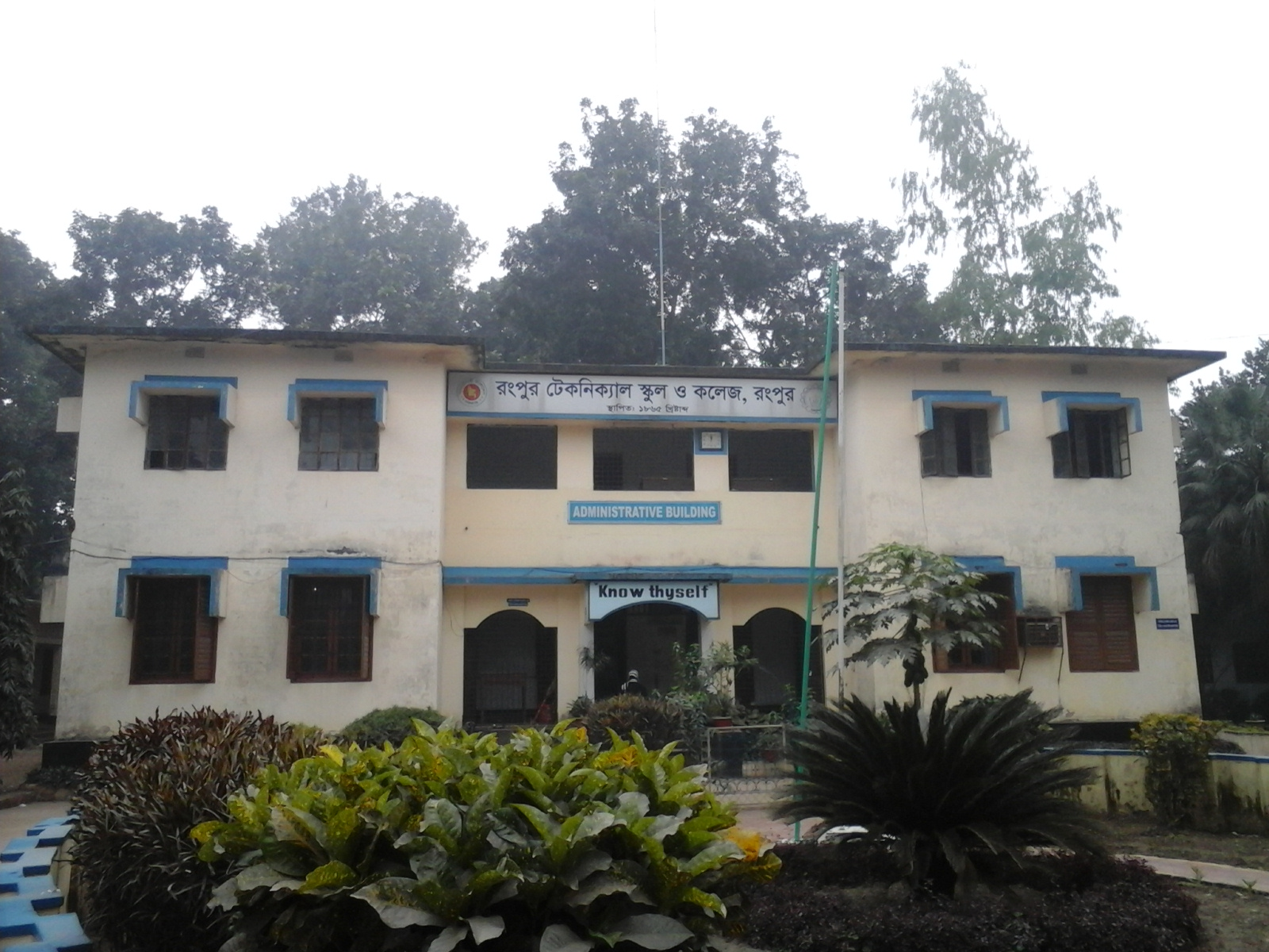 Administrative Building, Rangpur Technical School & College